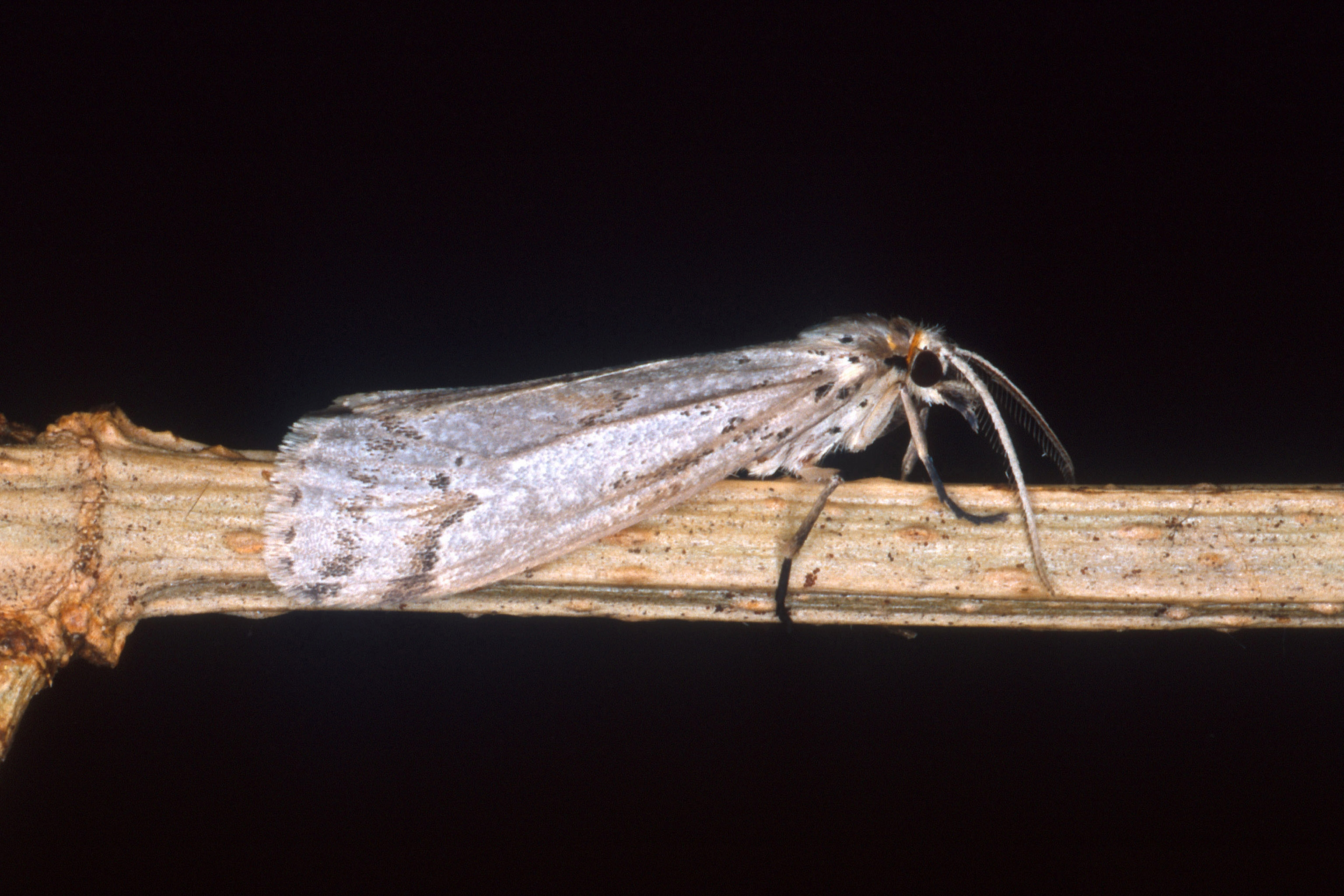 Acrolepia sp. (family: Acrolepiidae) Original description: "This tiny (about a quarter-inch long) stem-boring moth, Acrolepia sp., is being evaluated as a biological control for Cape ivy."